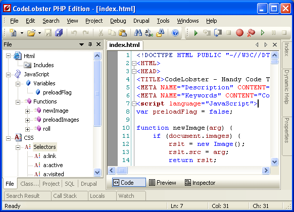 Codelobster PHP Edition Screenshot